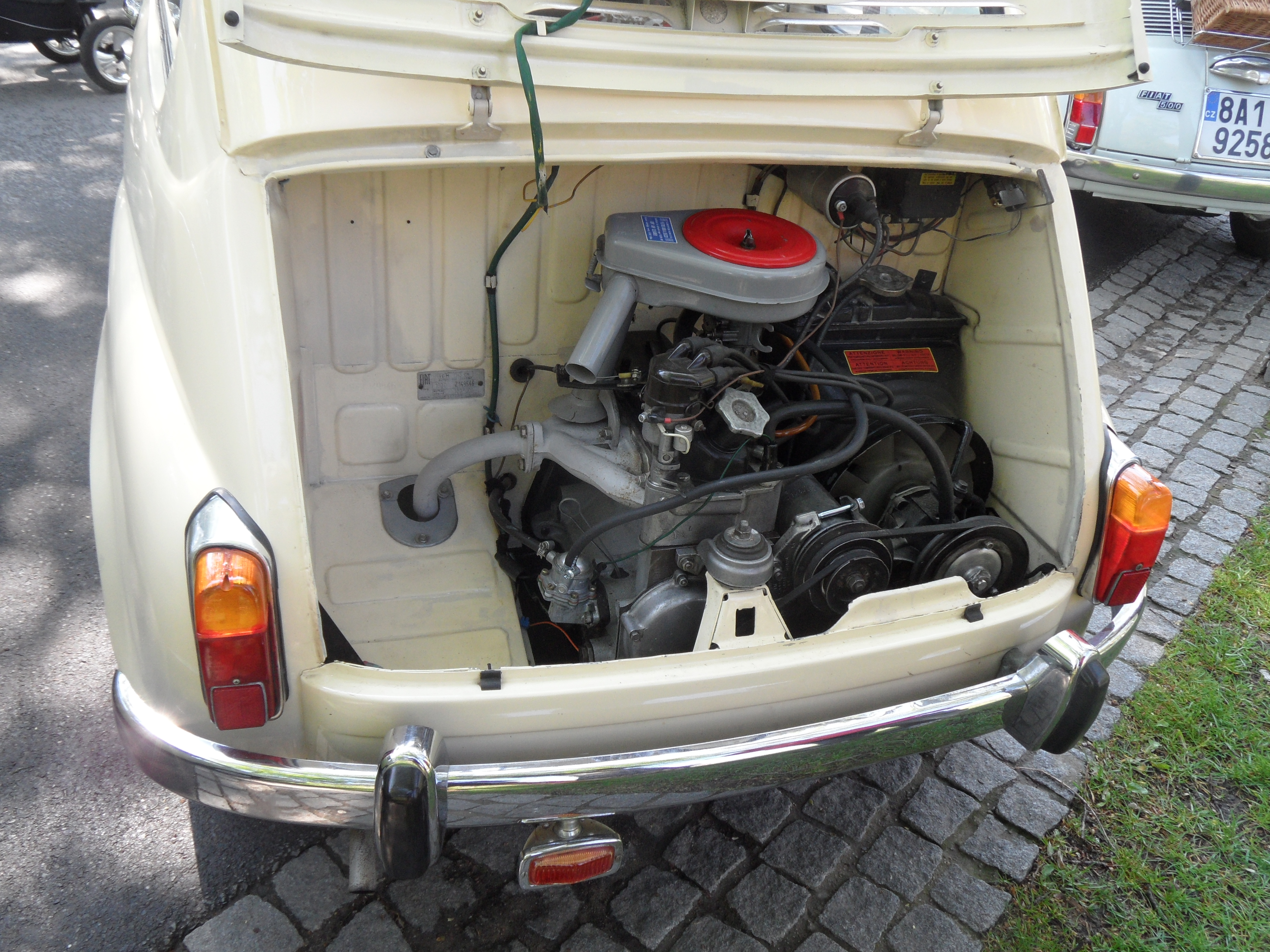 18th Meeting of Italian Car in Poděbrady; Nymburk District, the Czech Republic.Fiat 600.